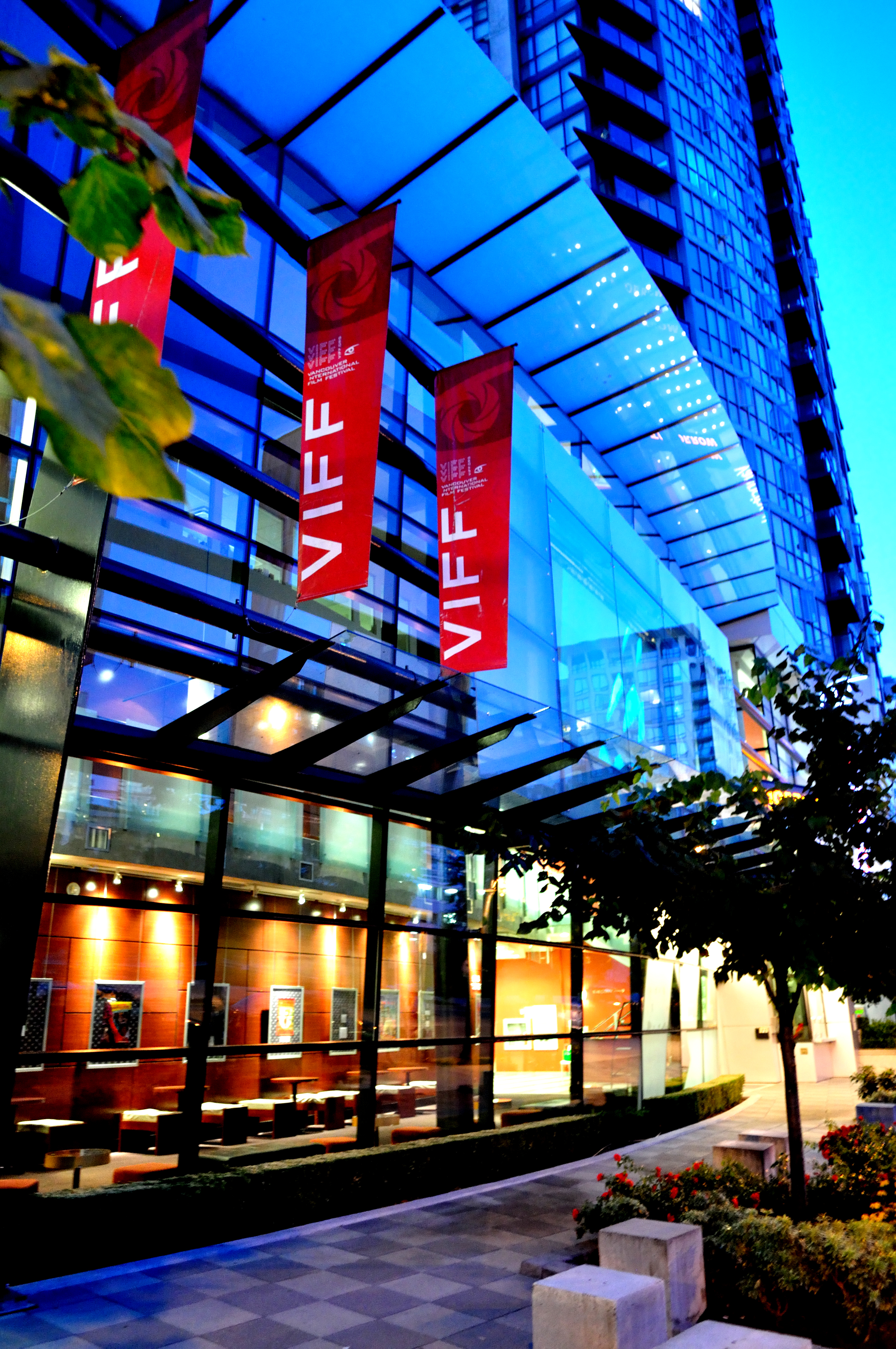 Vancouver: City of Glass